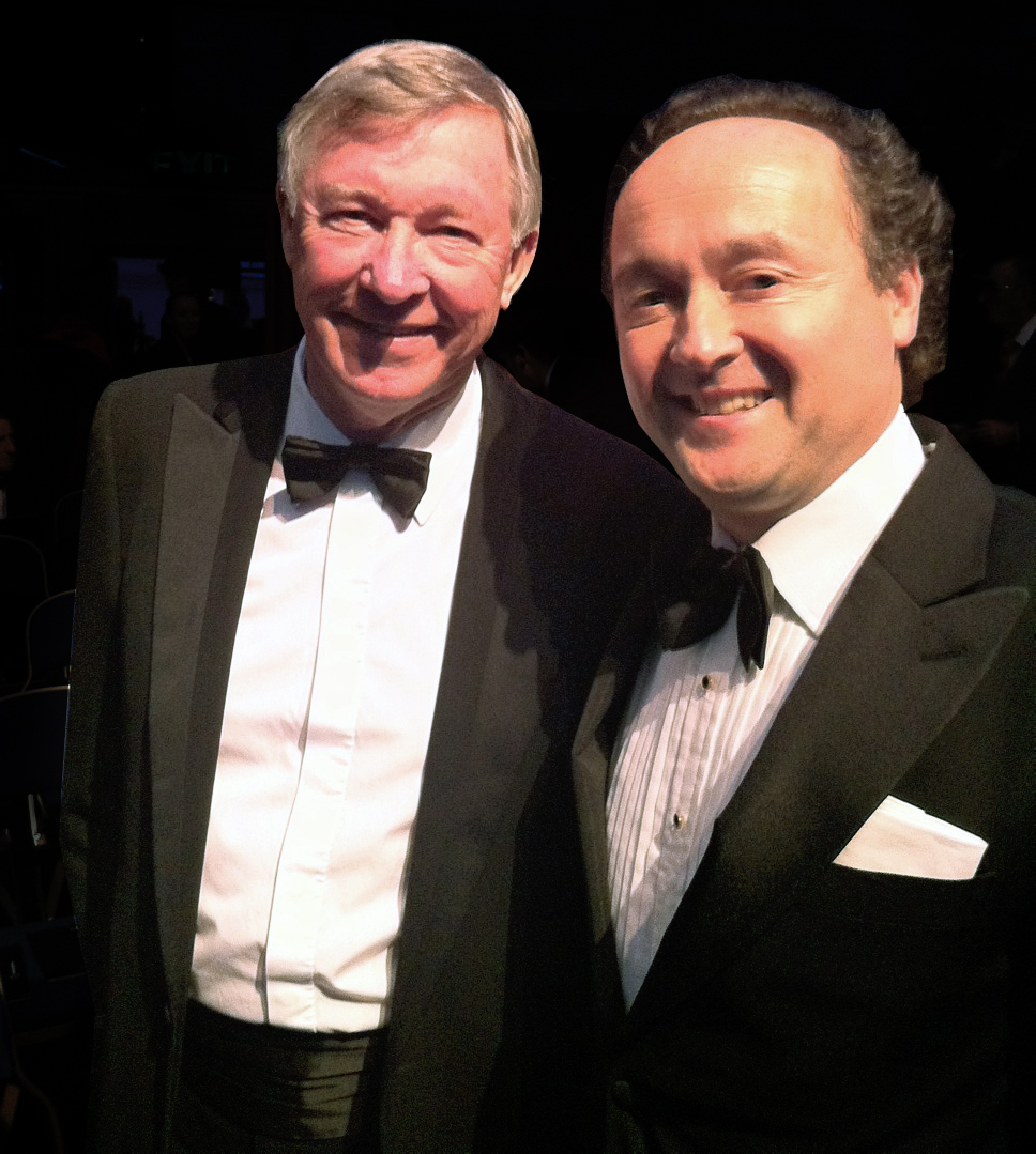 Rafael Serrano with Sir Alex Ferguson at the Laureus World Sports Awards in London 2012